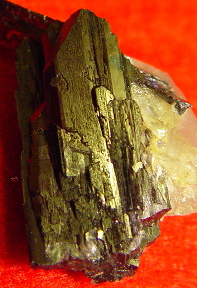 Wolframite from Hengyang, Hunan Province, China